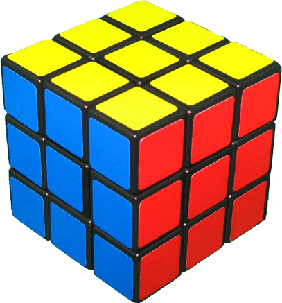 A solved Rubik's Cube, showing the yellow, blue, and red sides. Blue is in the "Front" position.